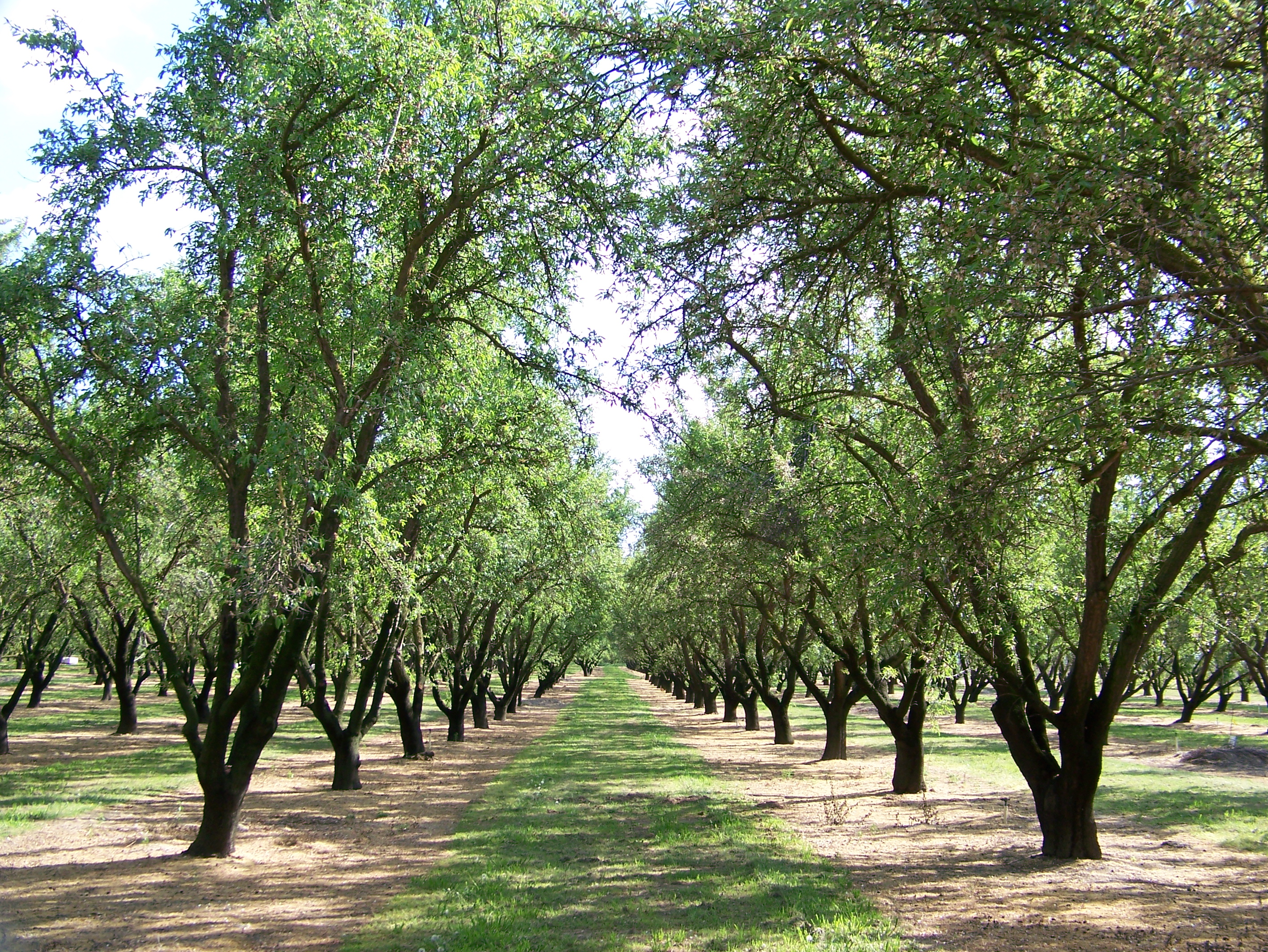 An almond (Prunus dulcis) orchard in Winton, California prior to harvest.